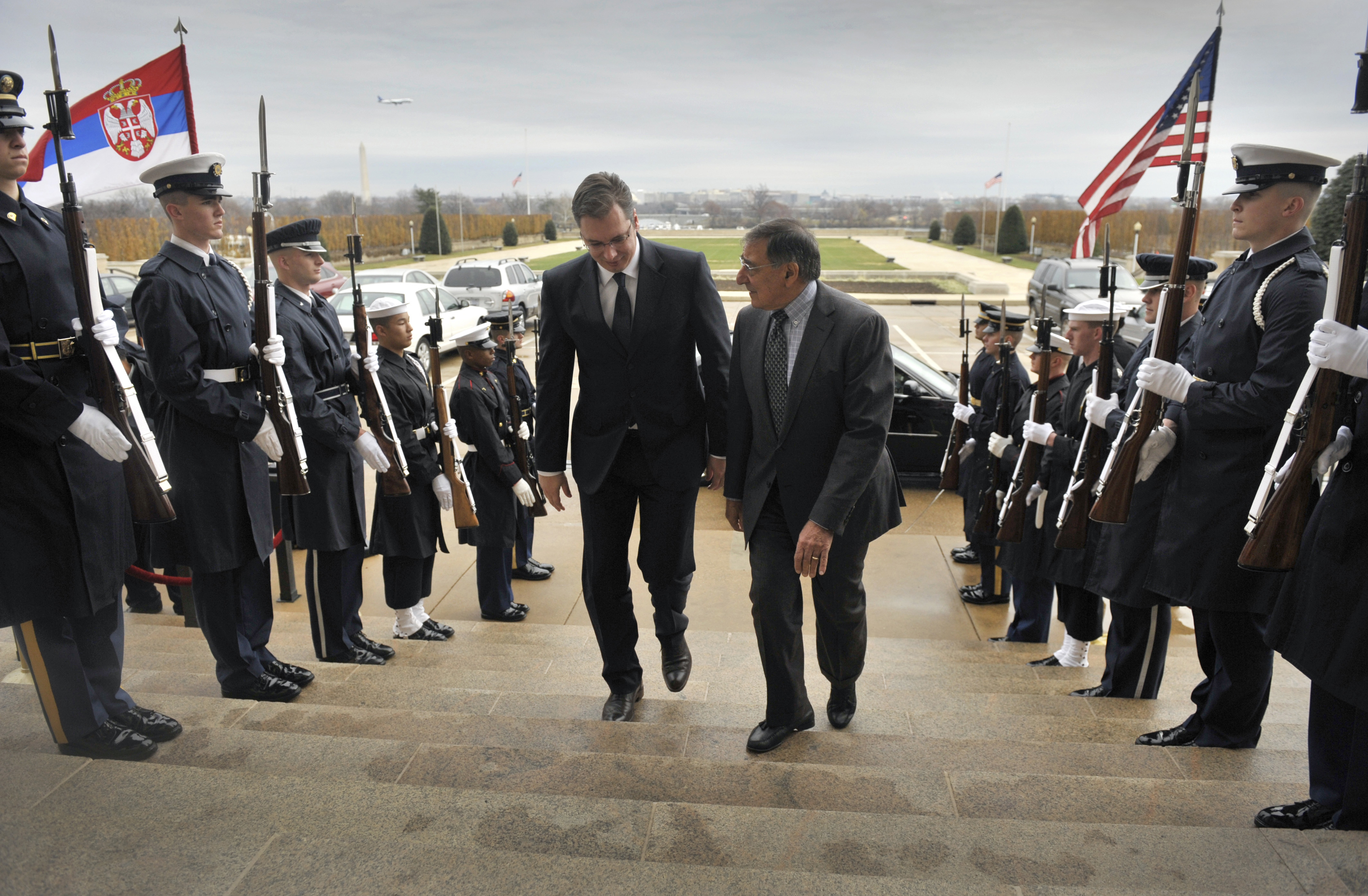 Secretary of Defense Leon E. Panetta, right, escorts Serbia's Minister of Defense Aleksandar Vucic through an honor cordon and into the Pentagon on Dec. 7, 2012. Panetta and Vucic will meet to discuss national and regional security items of interest to both nations.